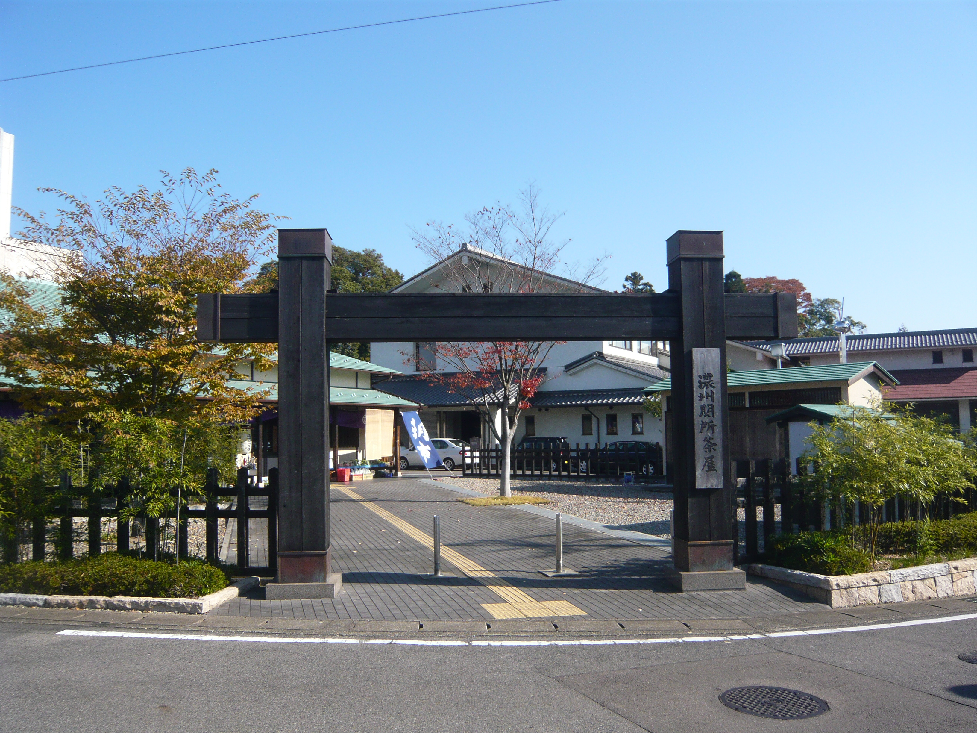 No-shu Sekisho Rest House 濃州関所茶屋（濃州関所茶屋）,Seki,Gifu,Japan（岐阜県関市）で撮影。